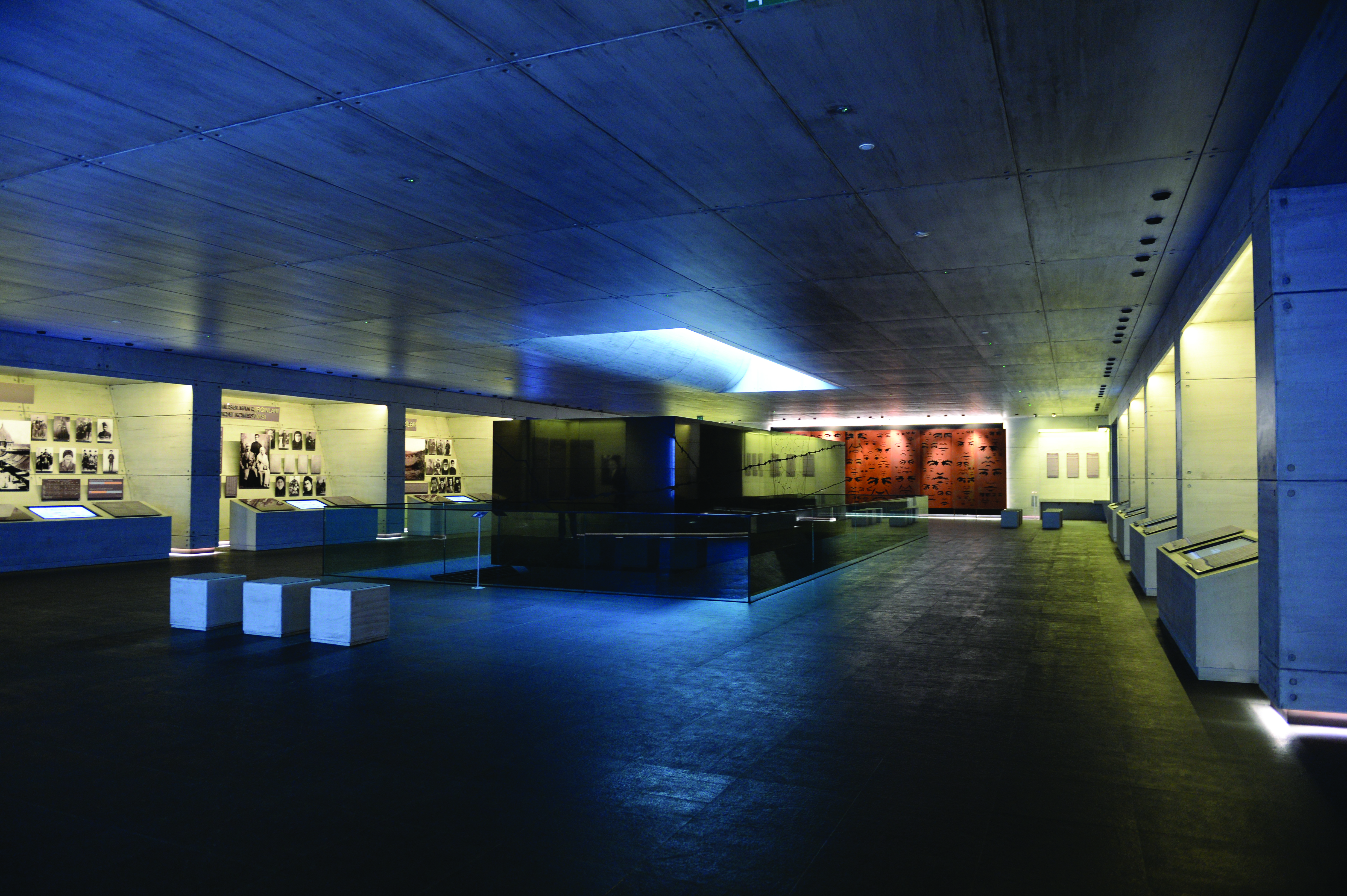 Guba Genocide Memorial Complex